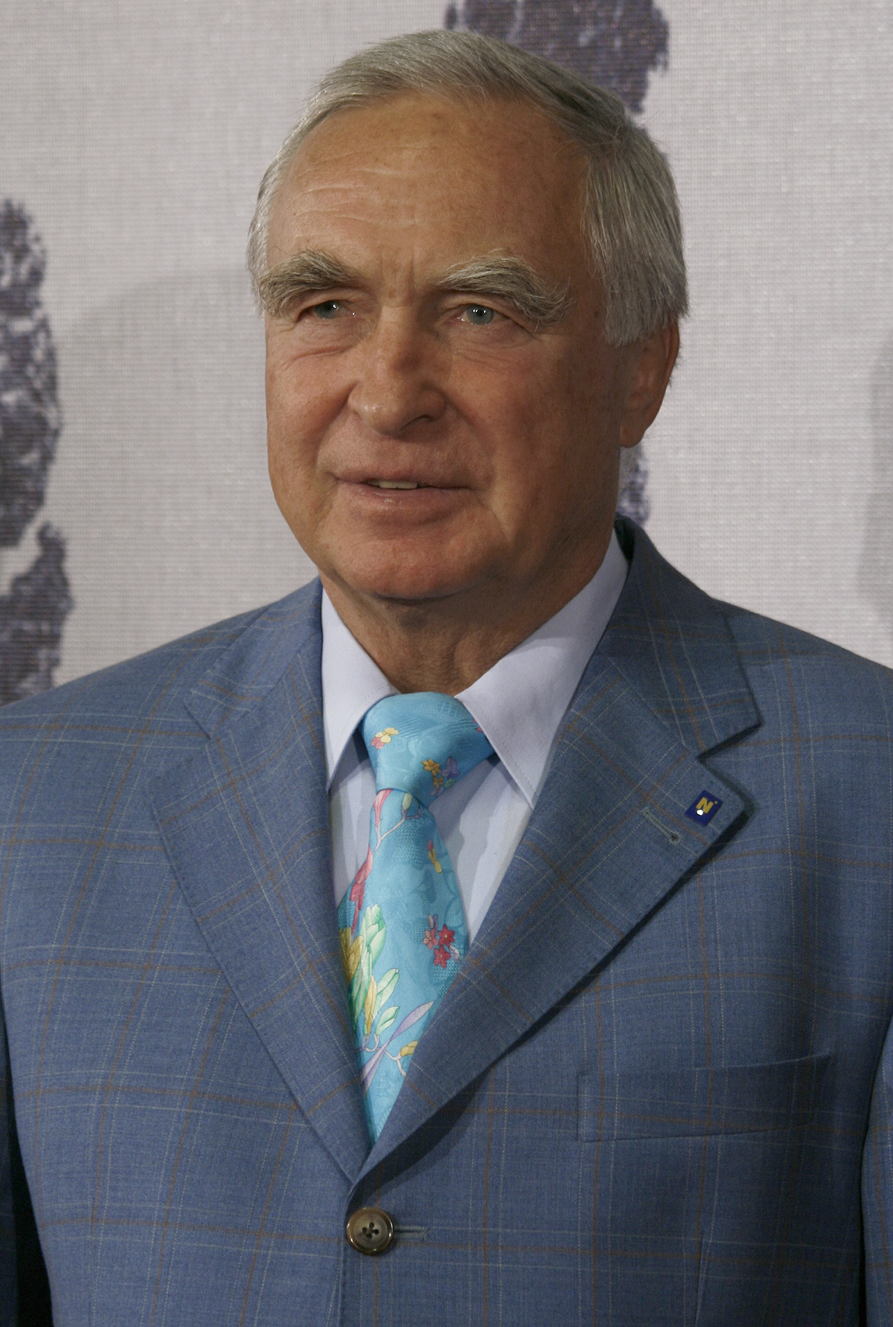 Austrian handball coach and sports manager Gunnar Prokop at the Galanacht des Sports (Gala-Night of Sports), where the Austrian Sportspersonalities of the Year 2008 were honoured.